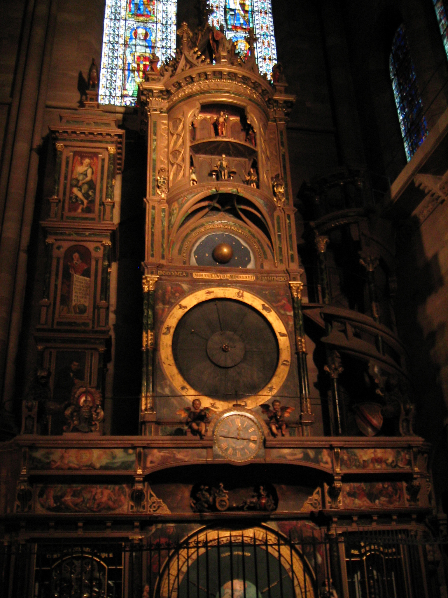 Strasbourg astronomical clock